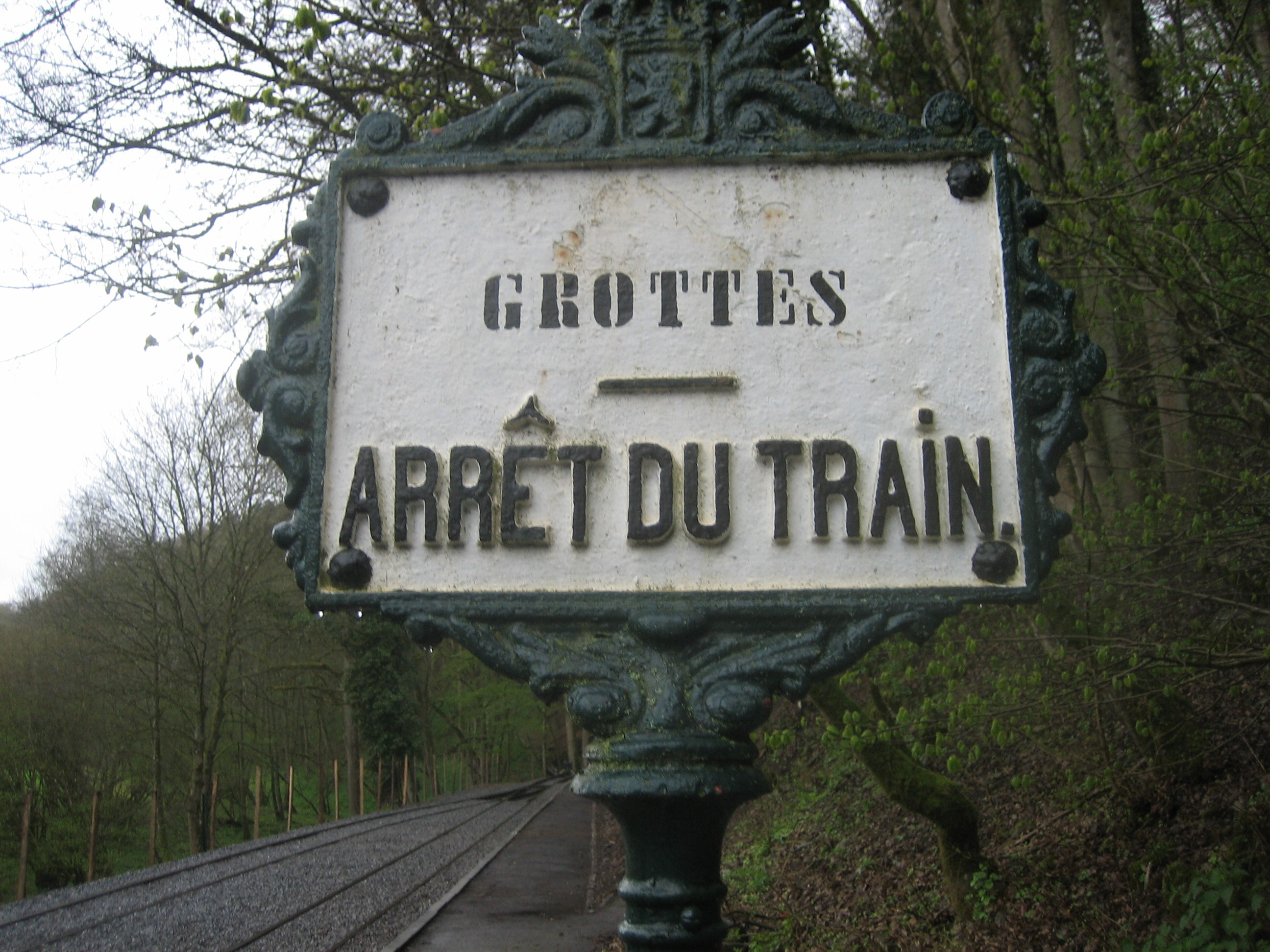 Grotten van Han, Han - Belgium, Picture taken by Hullie , 30 april 2006